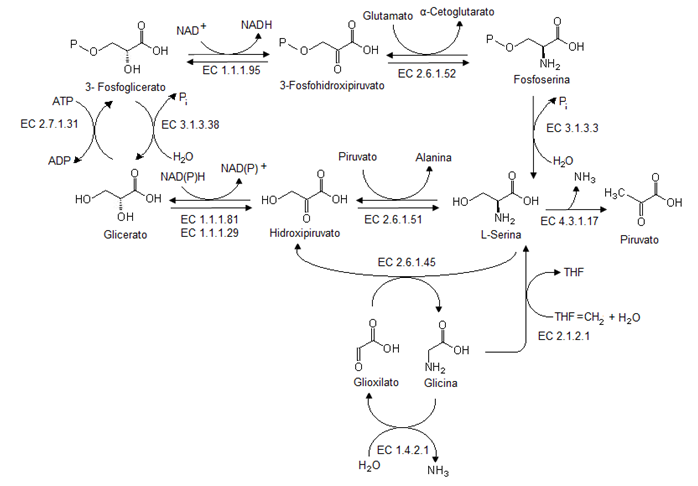 Serine biosynthesis scheme